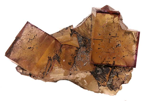 Fluorite Locality: Cave-in-Rock, Cave-in-Rock Sub-District, Illinois - Kentucky Fluorspar District, Hardin County, Illinois, USA (Locality at ) Glowing, golden-yellow crystals of fine luster, with a sharp purple line delineating the edges. 5.5 x 4.0 x 2.4cm